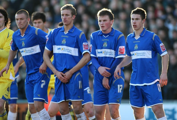 County Stars Anthony Pilkington, Carl Baker, Stephen Gleeson & Tommy Rowe Line-Up In A Wall Against Leeds United In Dec 2008.